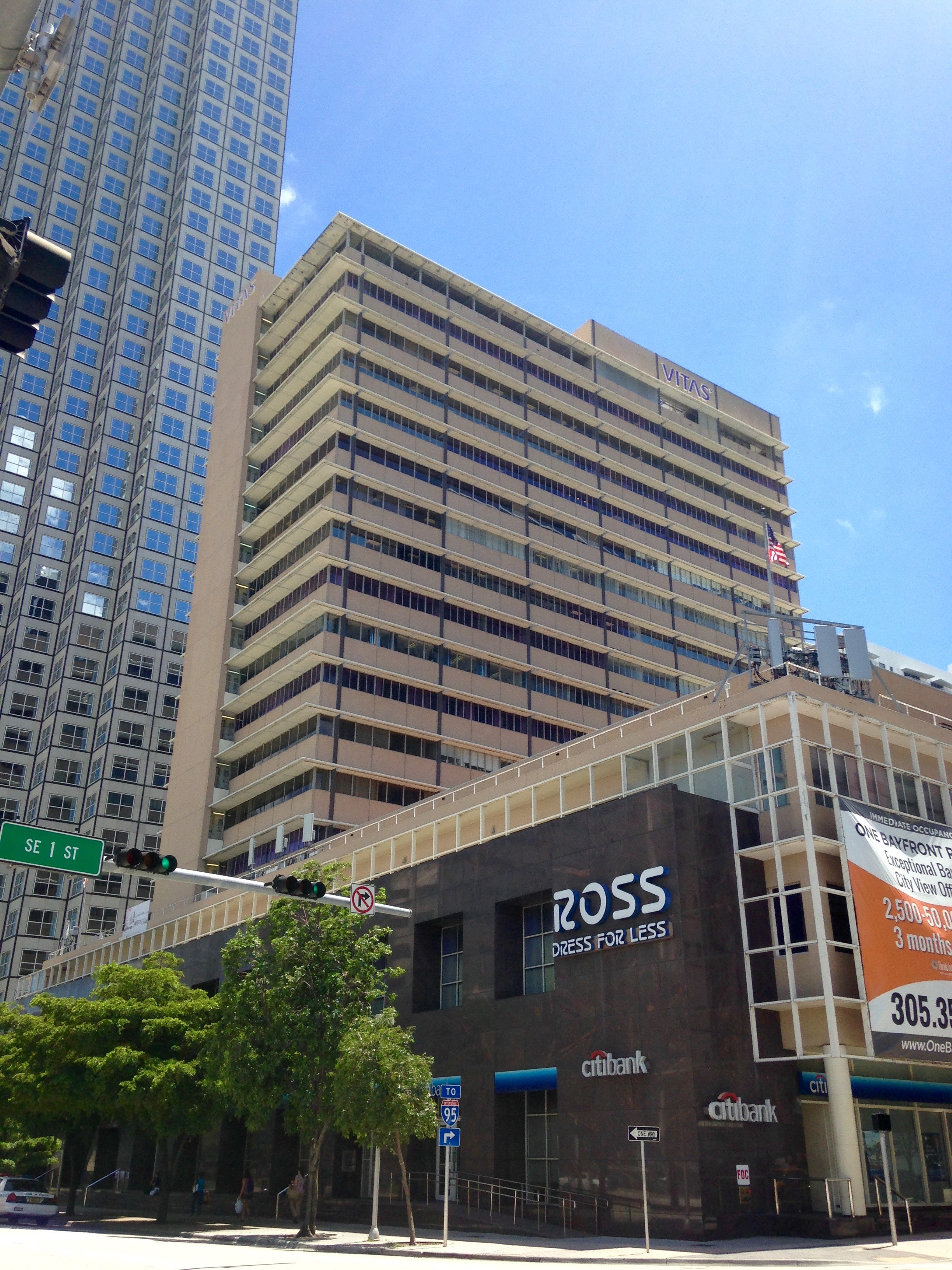 The original, 19-story One Bayfront Plaza.